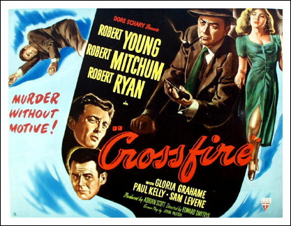 Low-res image of original poster for the film Crossfire (1947), featuring stars Robert Young and Gloria Grahame.